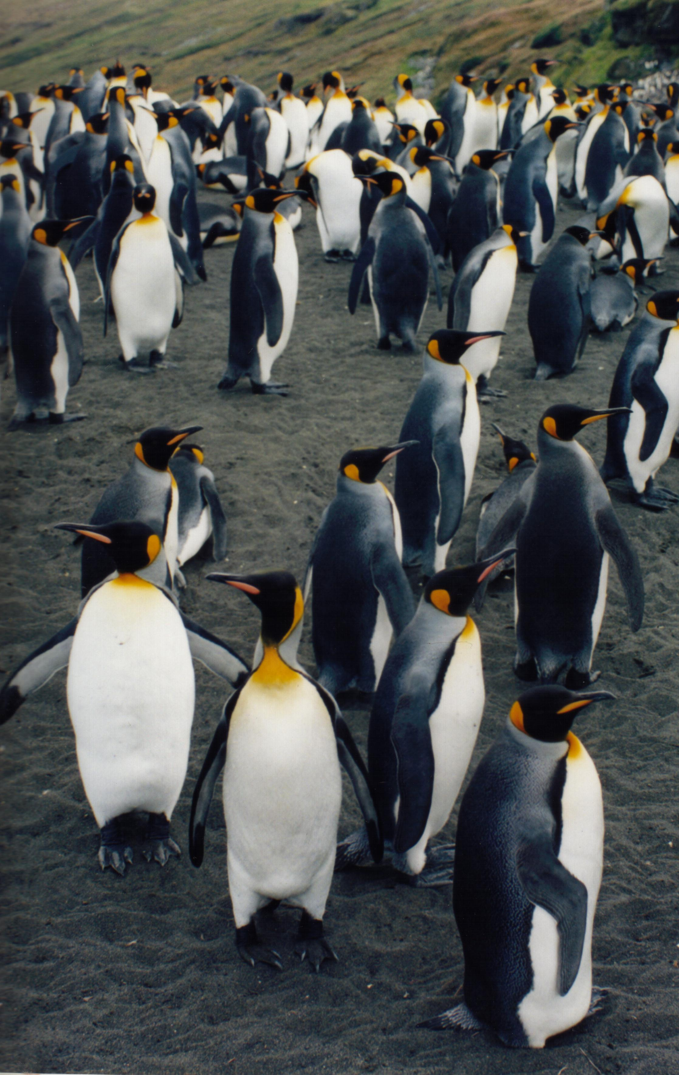 King penguins (Aptenodytes patagonicus halli). Crozet Islands.